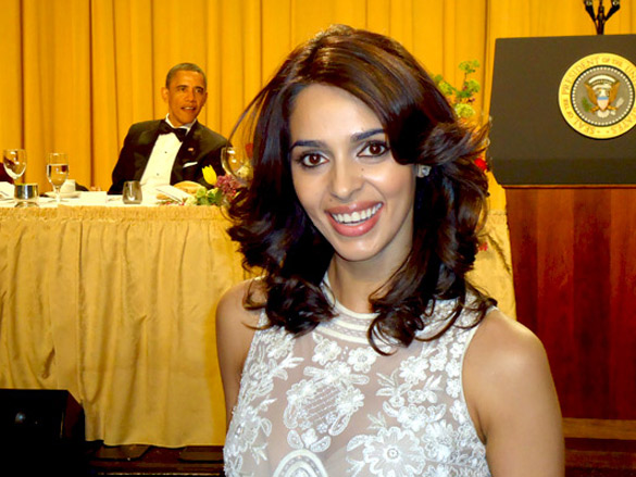 Mallika Sherawat at White House Correspondents Dinner ( Barack Obama in the background )